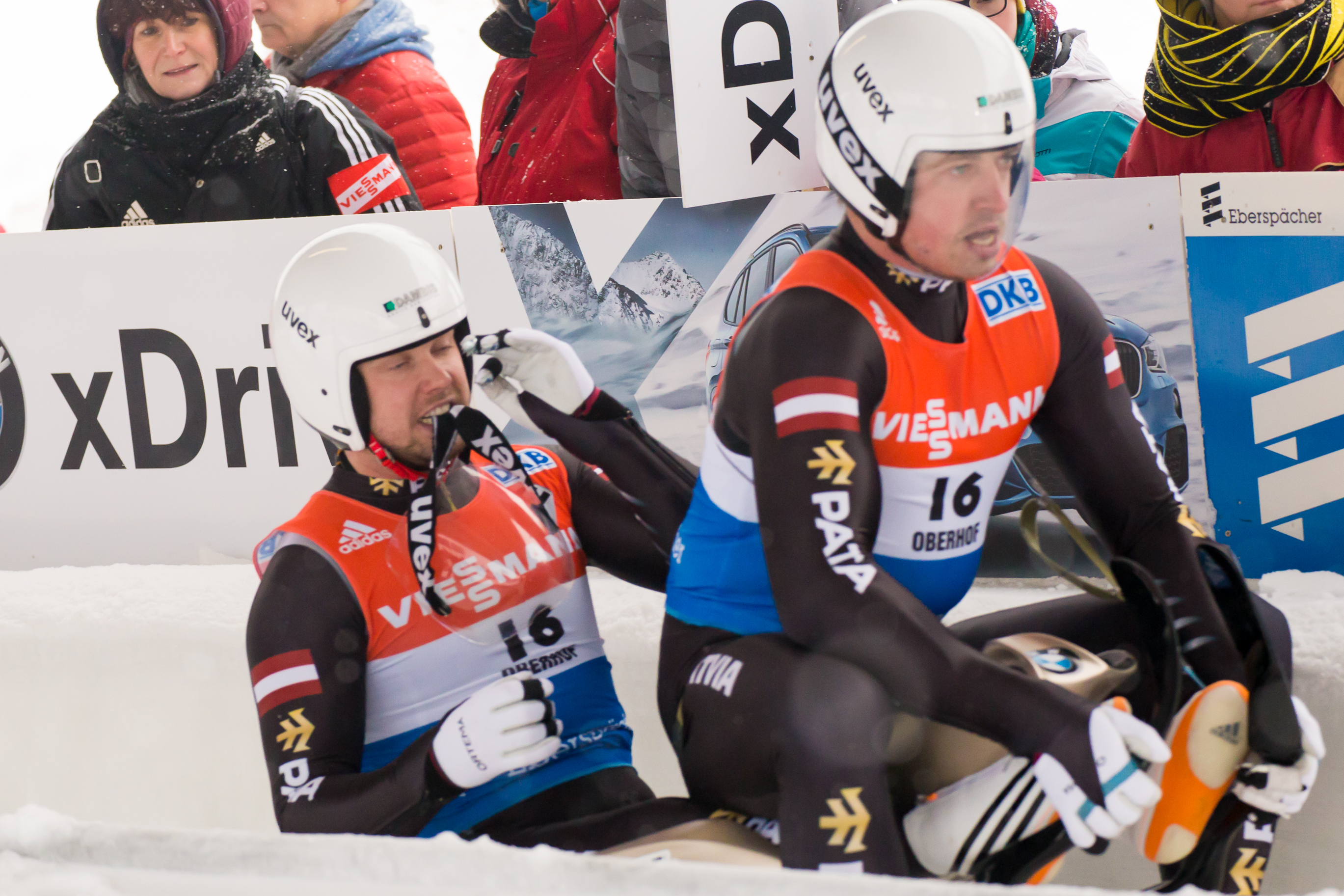 Luge world cup Oberhof 2016-01-17